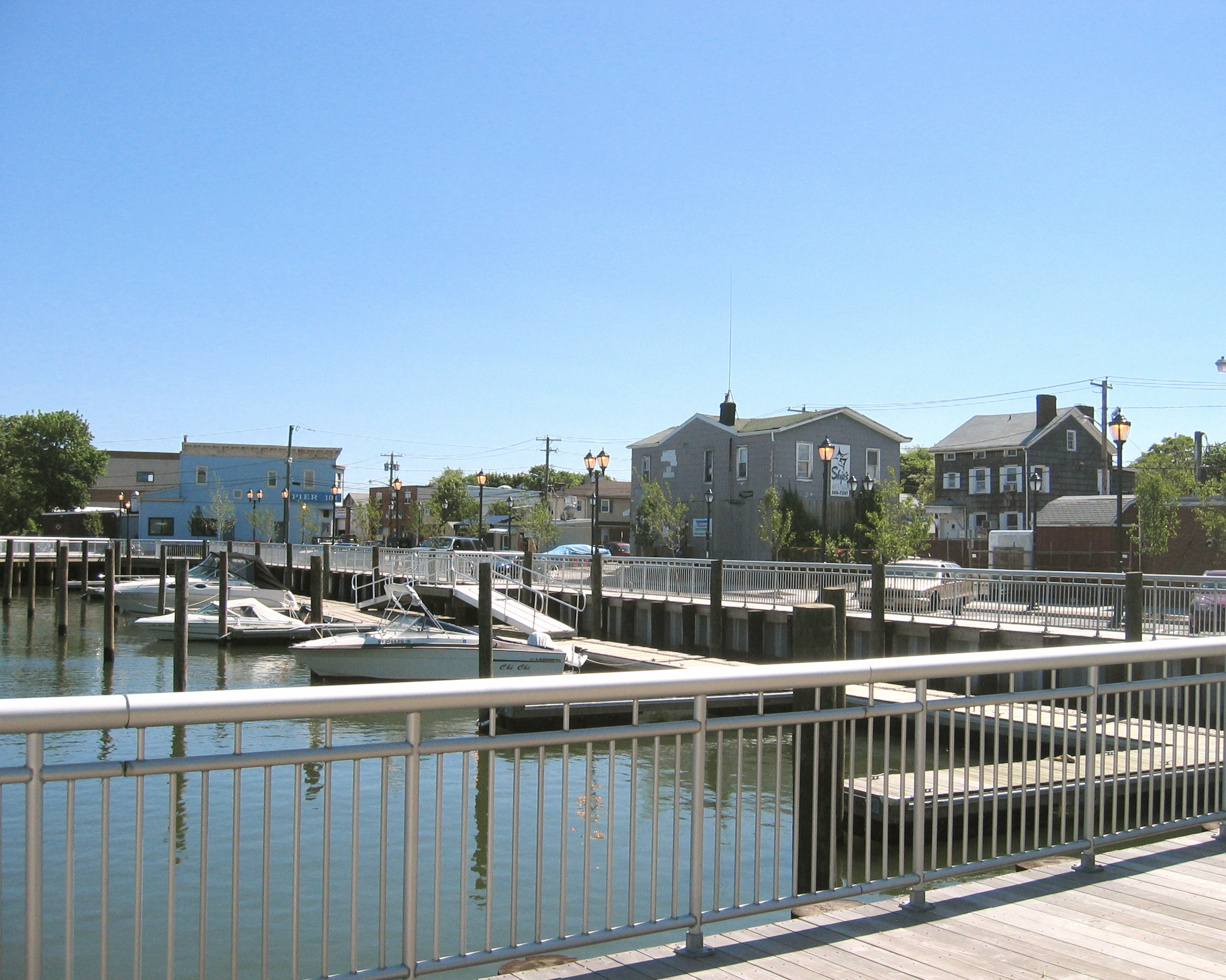 A dock in East Rockaway, New York